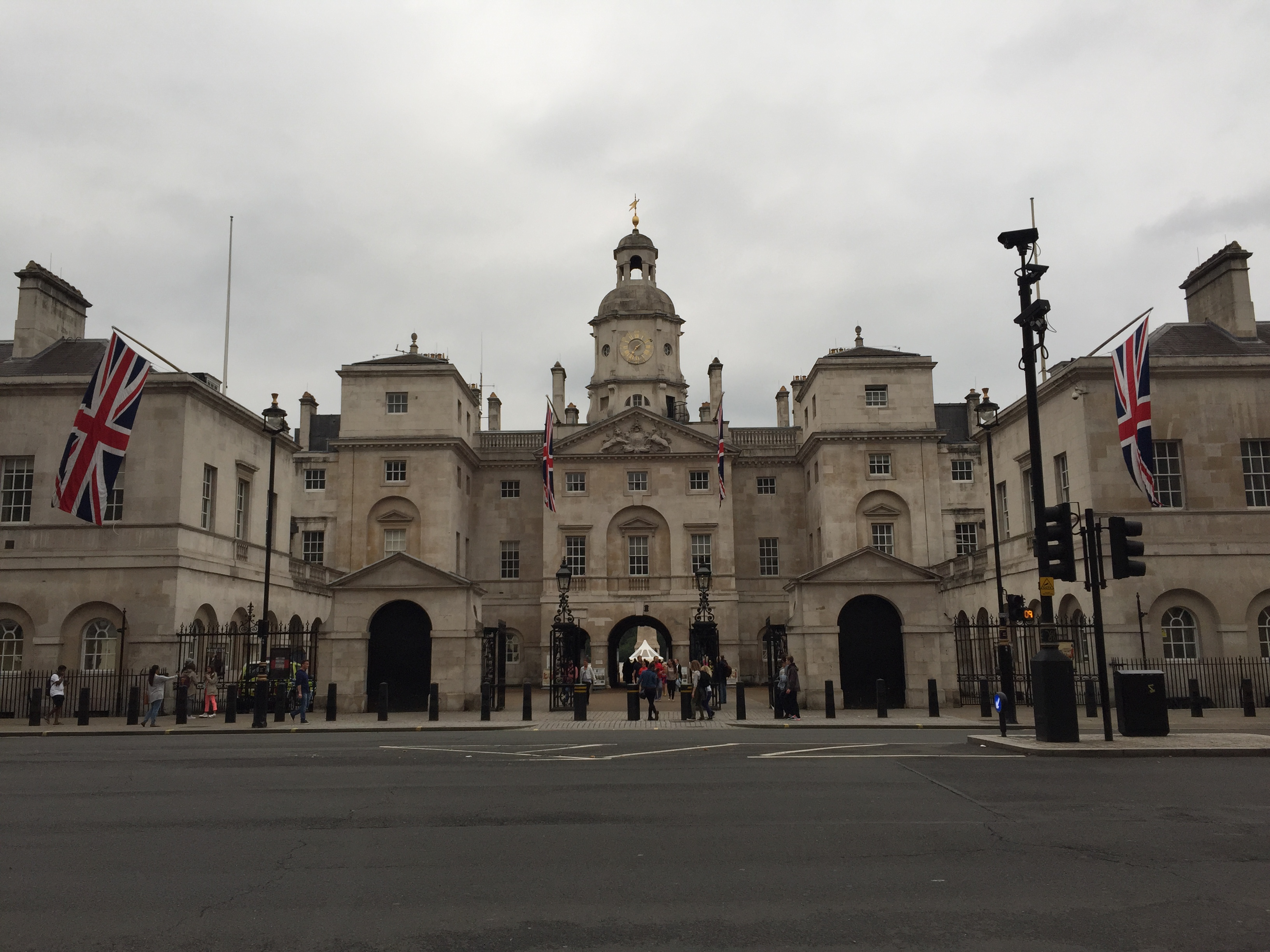 Horse Guards as seen from Whitehall